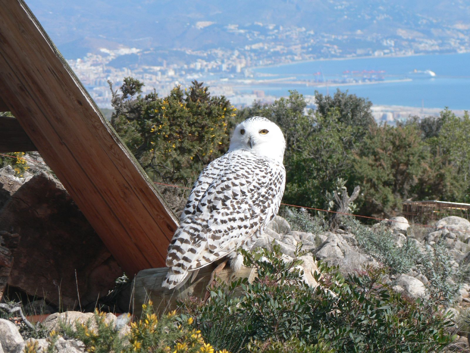 Benalmadena with Malaga in the background